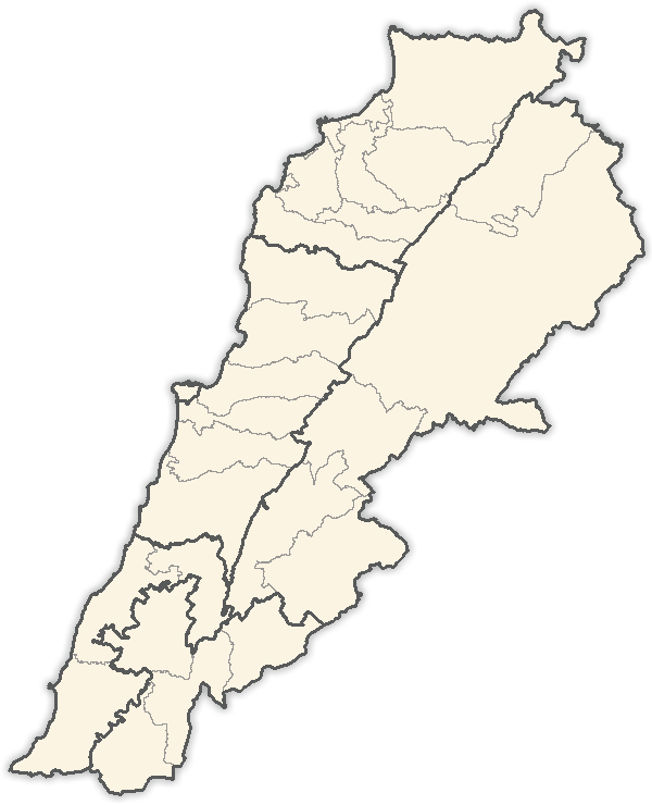 Maps illustrating the districts of Lebanon.